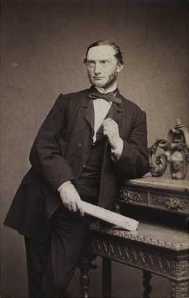 Danish lawyer and politician, MP Carl Christian Vilhelm Liebe (1820-1900)